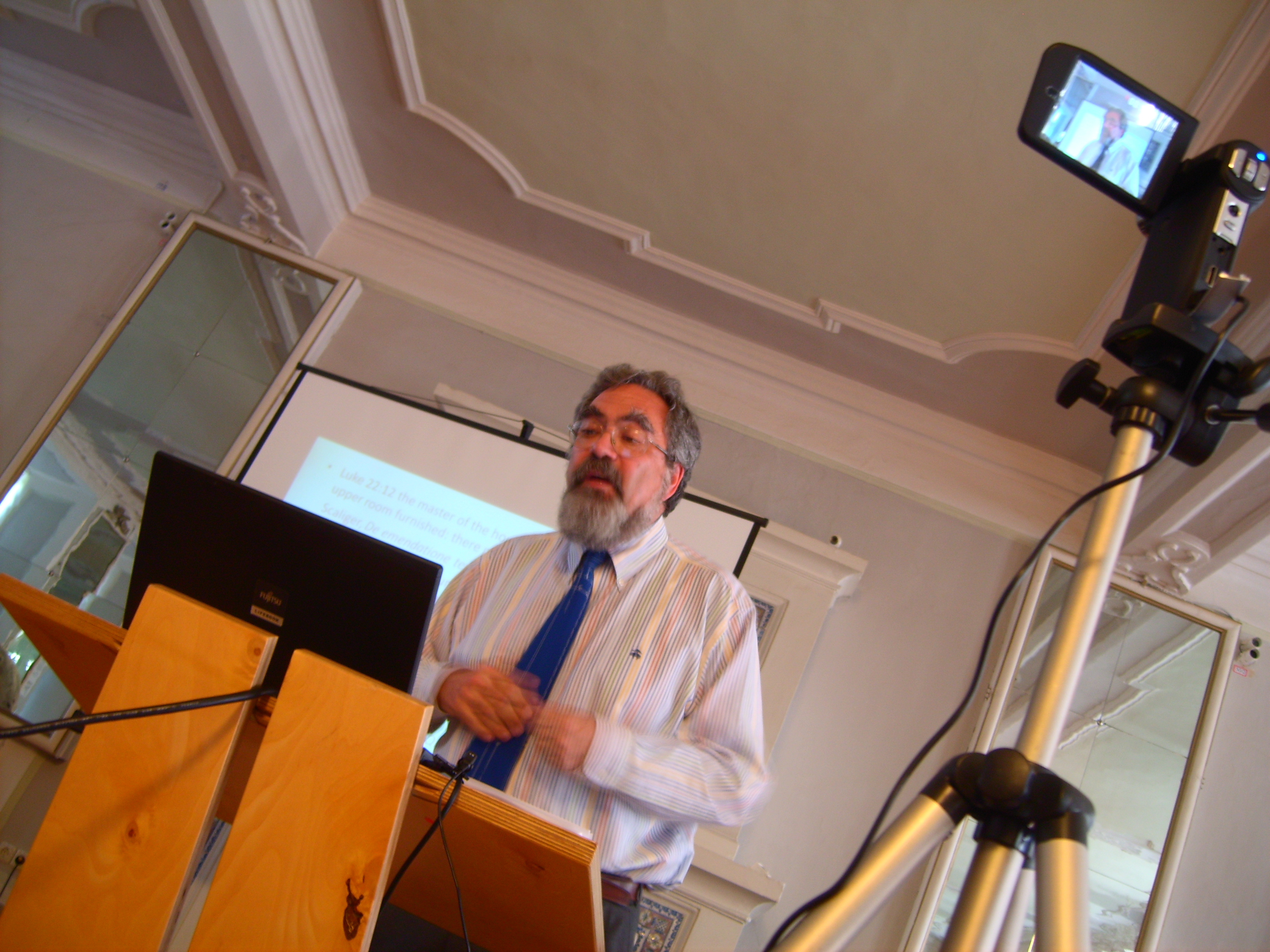 Anthony Grafton lecturing at the Gotha Research Centre